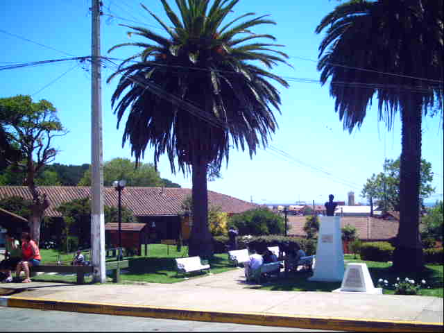 Square of Curanipe, capital of Pelluhue commune, Chile